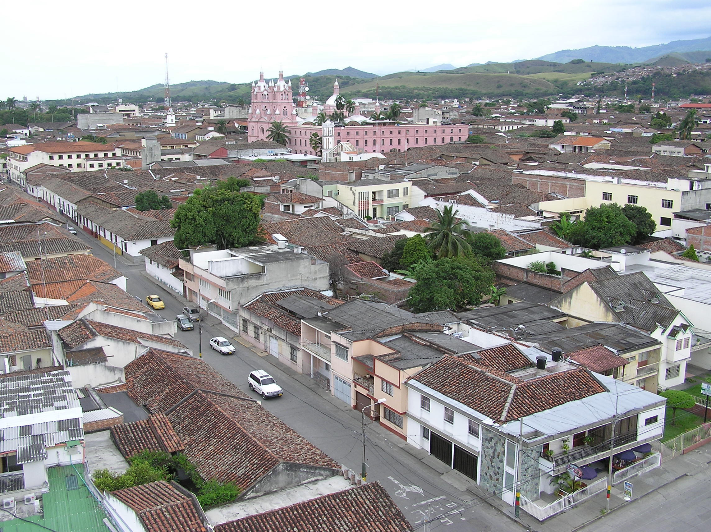 Guadalajara de Buga, fotografía tomada desde el faro.